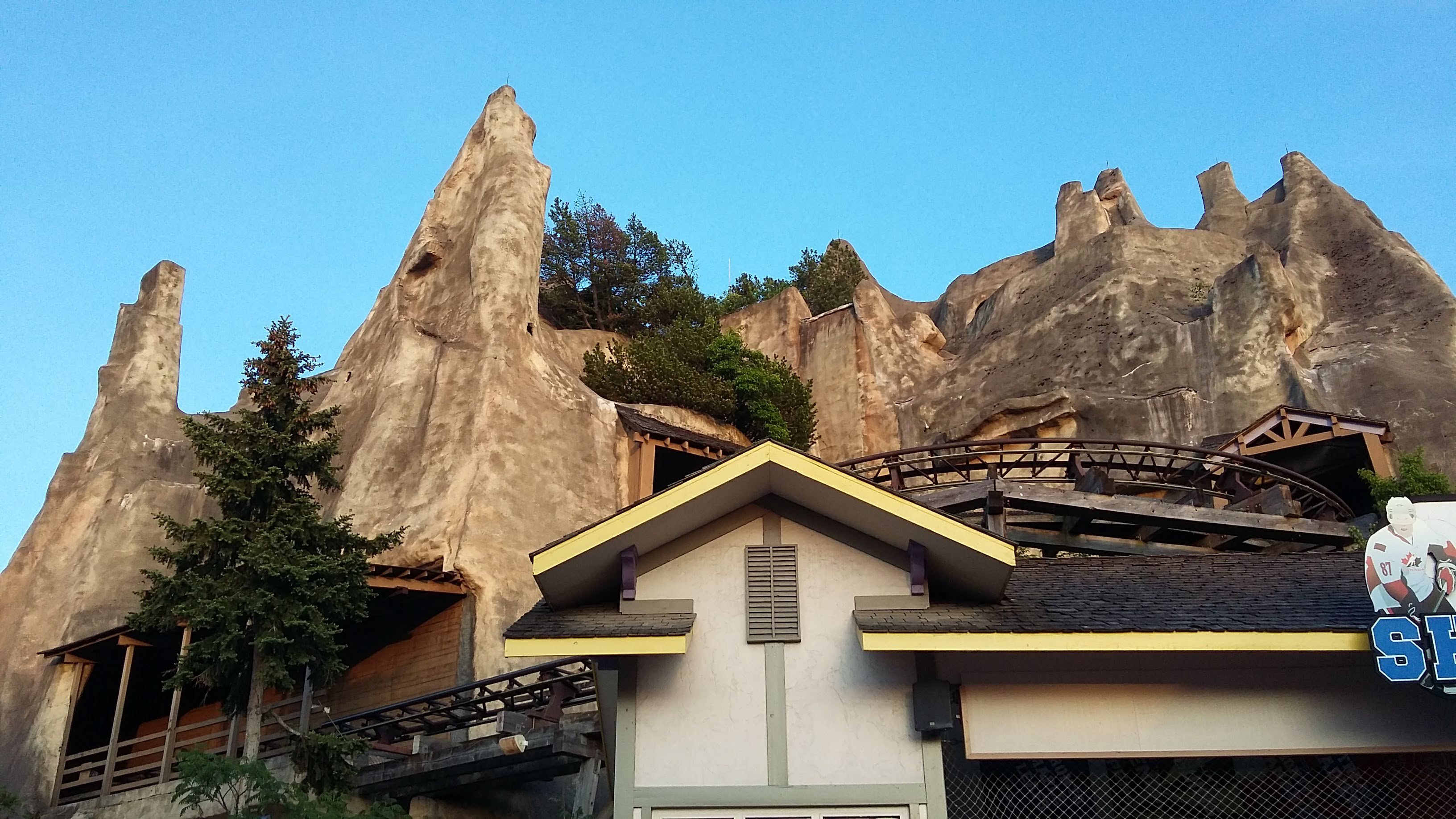 Thunder Run is a powered roller coaster at Canada's Wonderland. It runs through Wonder Mountain, and while it lacks any scary drops of any kind, it was a lot of fun to ride.